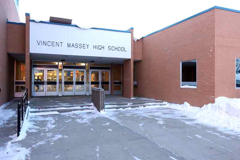 a photo of the main entrance